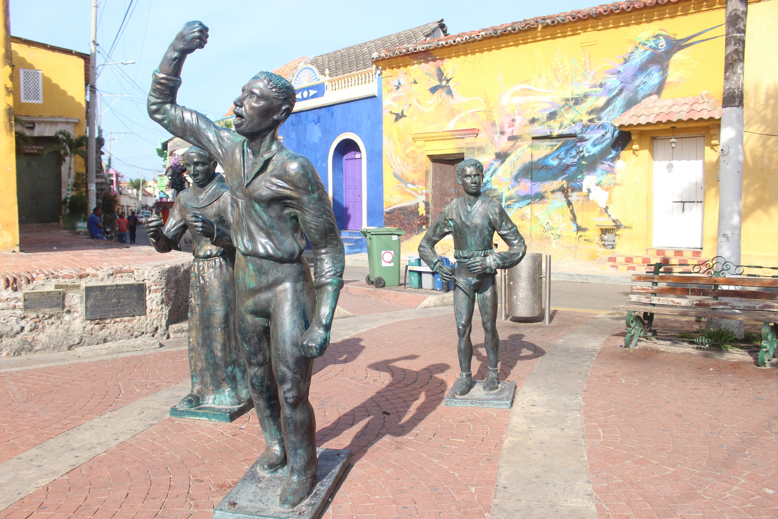 Statues in Plaza de la Trinidad in Cartagena, Colombia in August 2016.